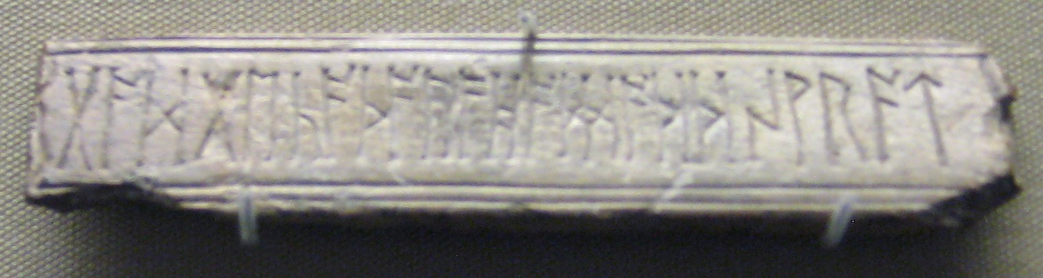 Bone rectangular plaque or mount with incised runic inscription ᚷᚩᛞ ᚷᛖᚳᚪᚦ ᚪᚱᚫ ᚻᚪᛞ‍ᛞᚪ ᚦᛁ ᚦᛁᛋ ᚹᚱᚪᛏ (GOD GECATH ARAE HADDA THI THIS WRAT = "God saves by his mercy Hadda who wrote this").